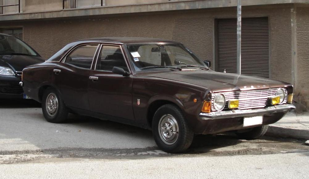 Ford Cortina 1600